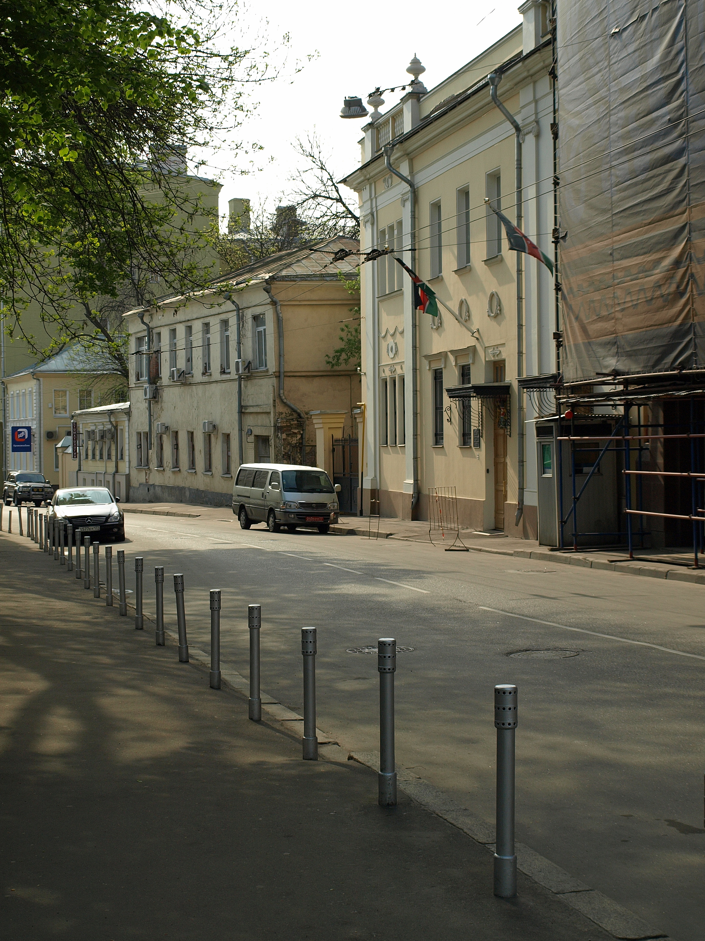 Embassy of Kenya in Moscow